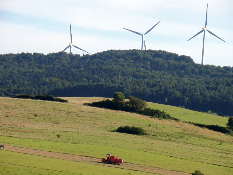 Bukowsko